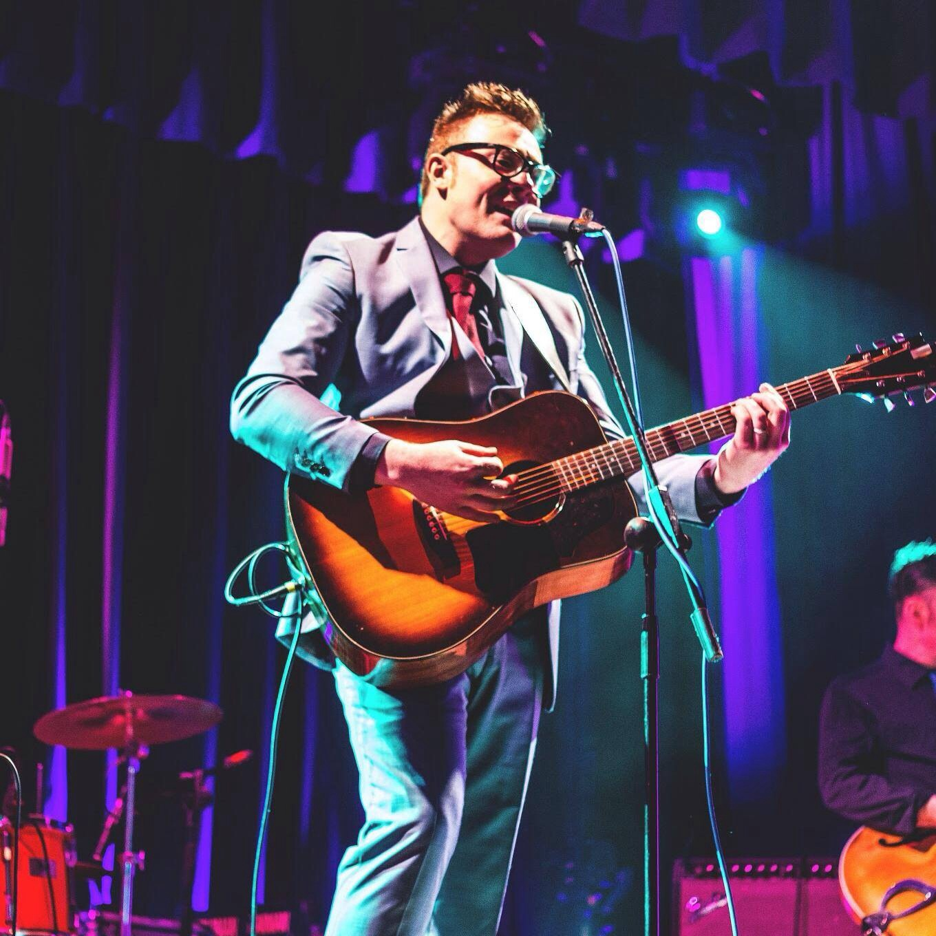 Brendan McCahey live performance